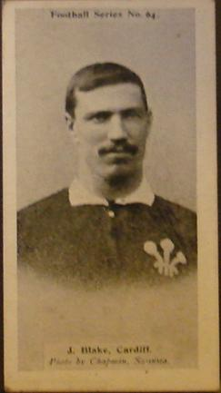 Jere Blake, Wales and Cardiff RFC rugby union player, Wills cigarette card